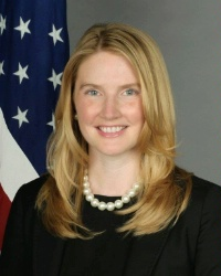 Official portrait of Marie Harf